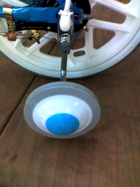 Training wheel(補助輪)